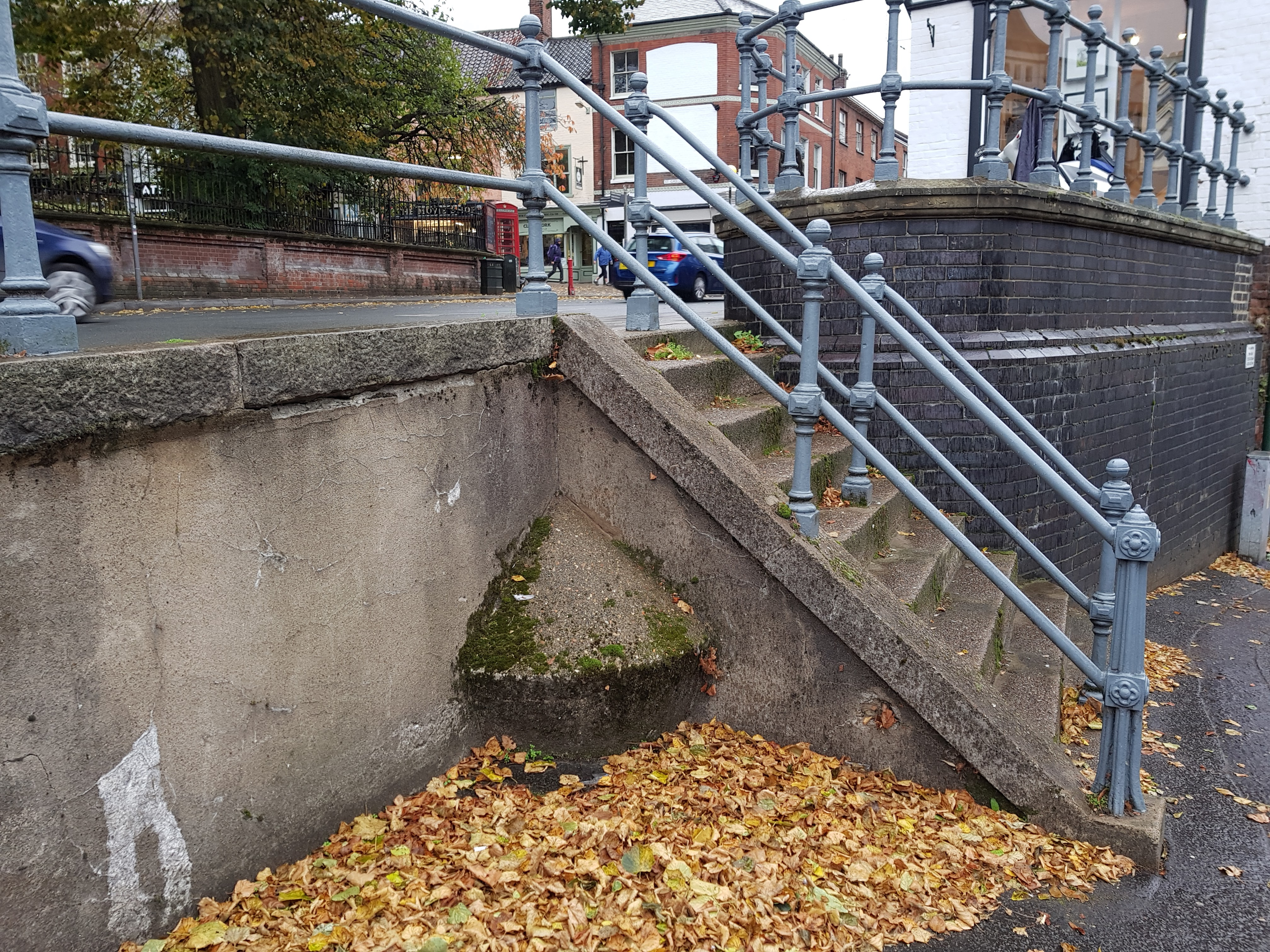 Anti-urination device at the steps leading from St Benedict's Street (top) to Westwick Street (bottom), Norwich